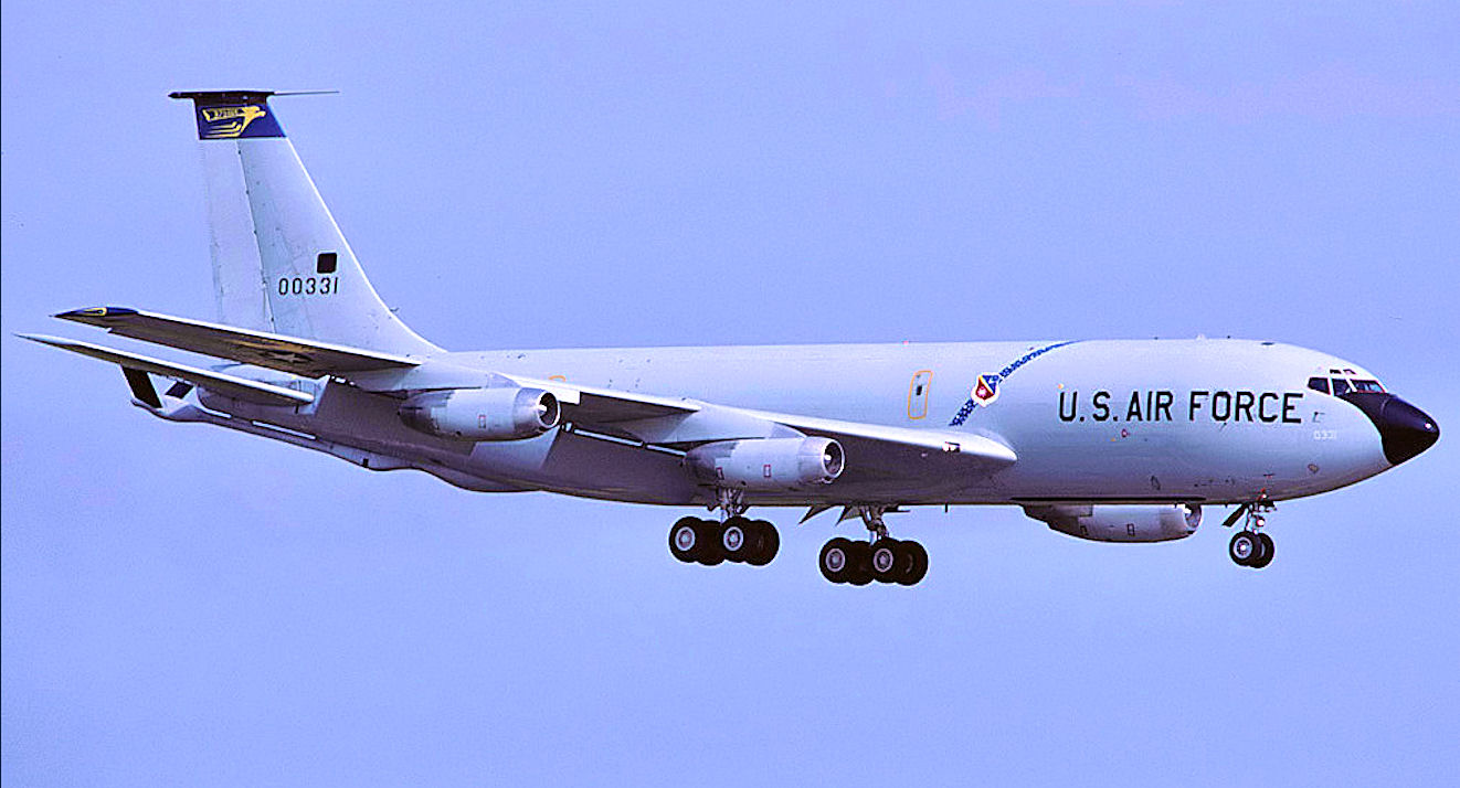 920th Air Refueling Squadron - Boeing KC-135A Stratotanker 60-0331 Note 379th Bombardment Wing emblem on SAC "milky way" band on fuselage.